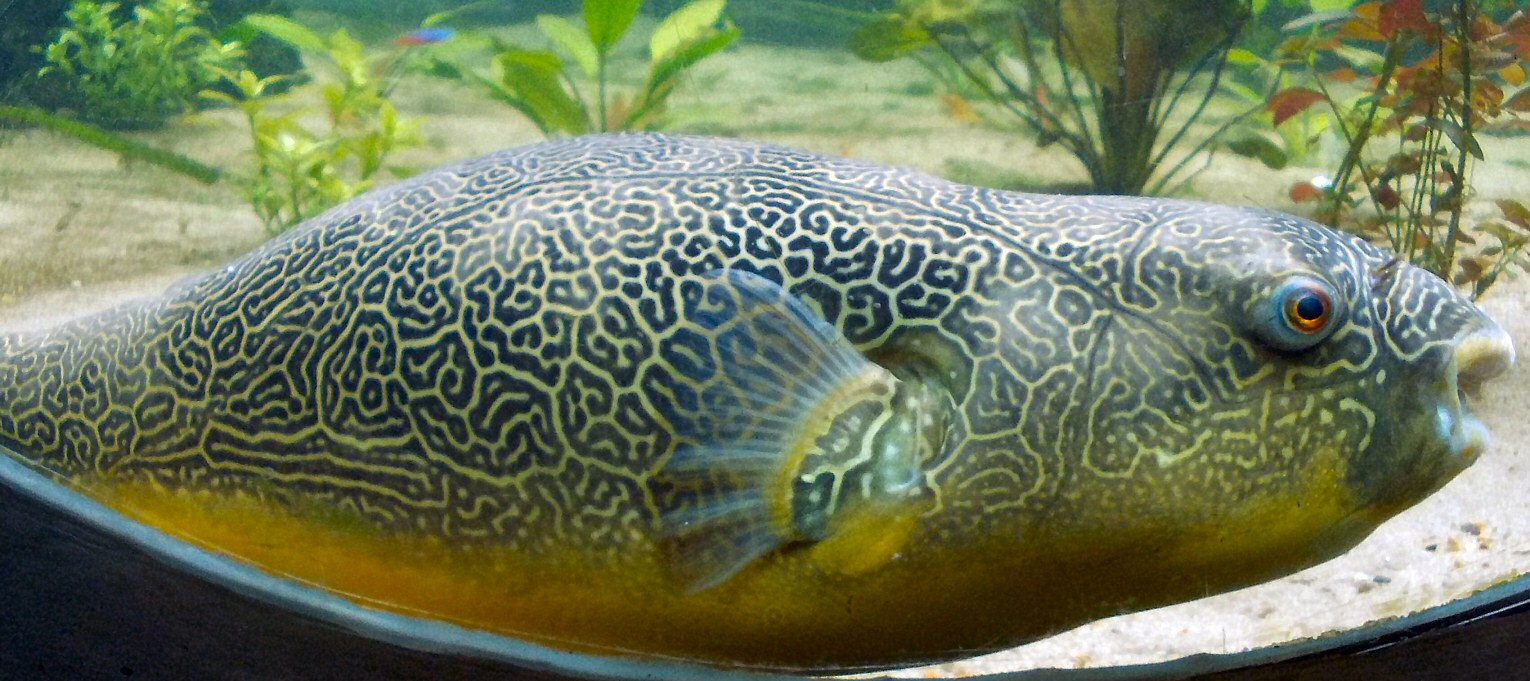 Elaborate skin pattern of Giant Freshwater Puffer fish, Tetraodon mbu. Aquarium of Kew Gardens, London